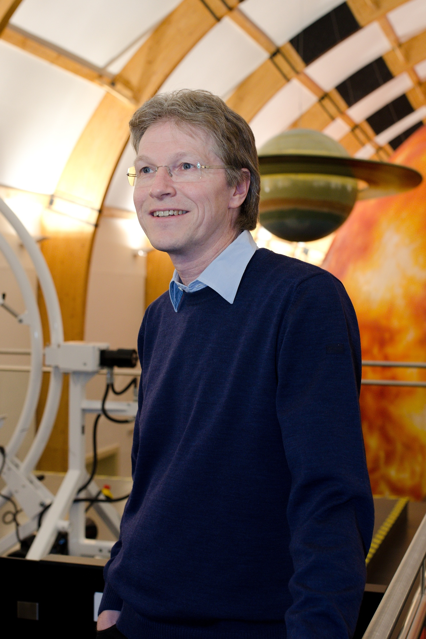 Bruno Leibundgut in the Czech science center Techmania